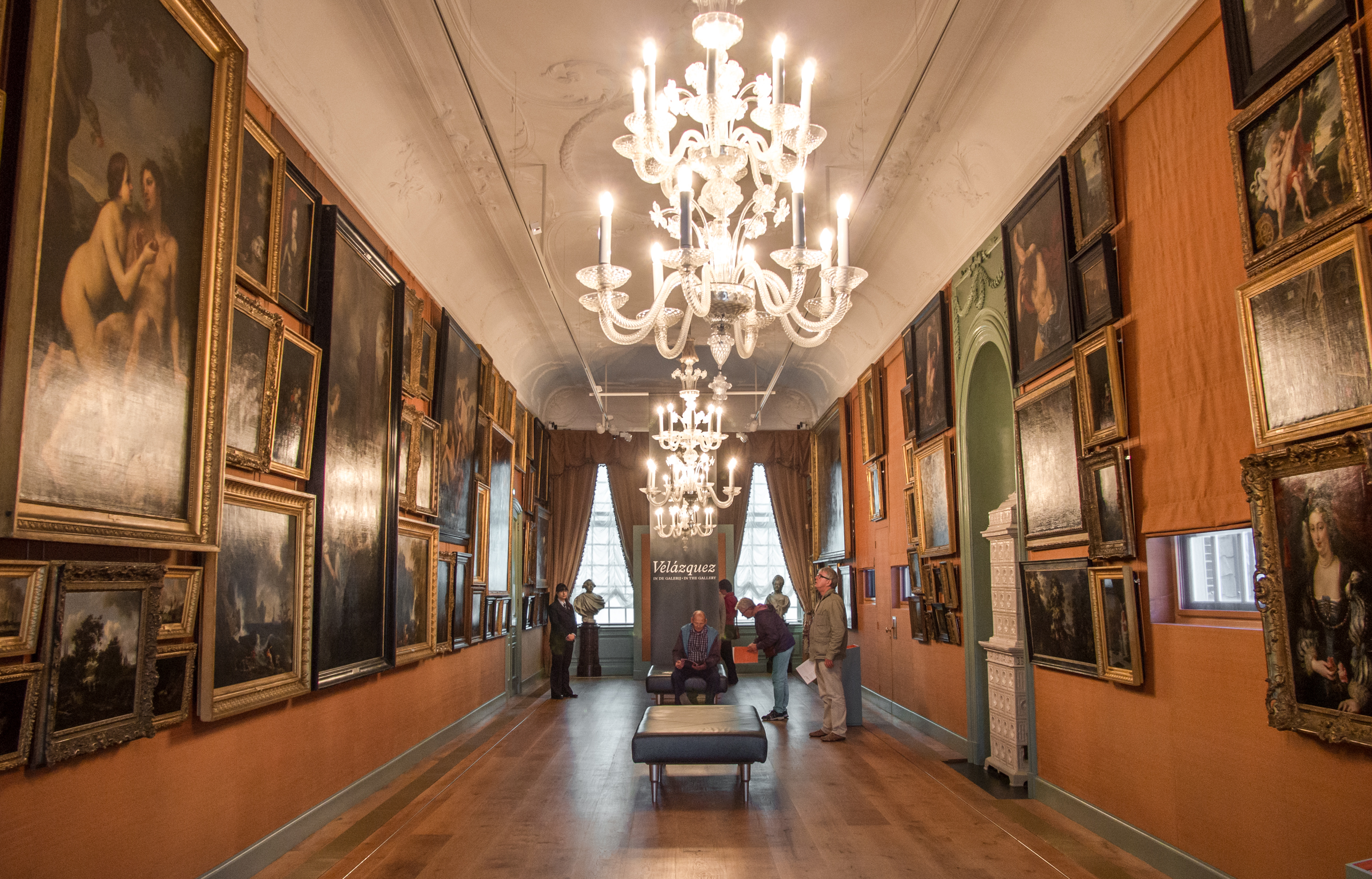 The interior of the Prince William V gallery. View towards the back of the gallery (southwest). The Velazques painting "The Jester Don Diego de Acedo" was on loan from the Prado Museum.